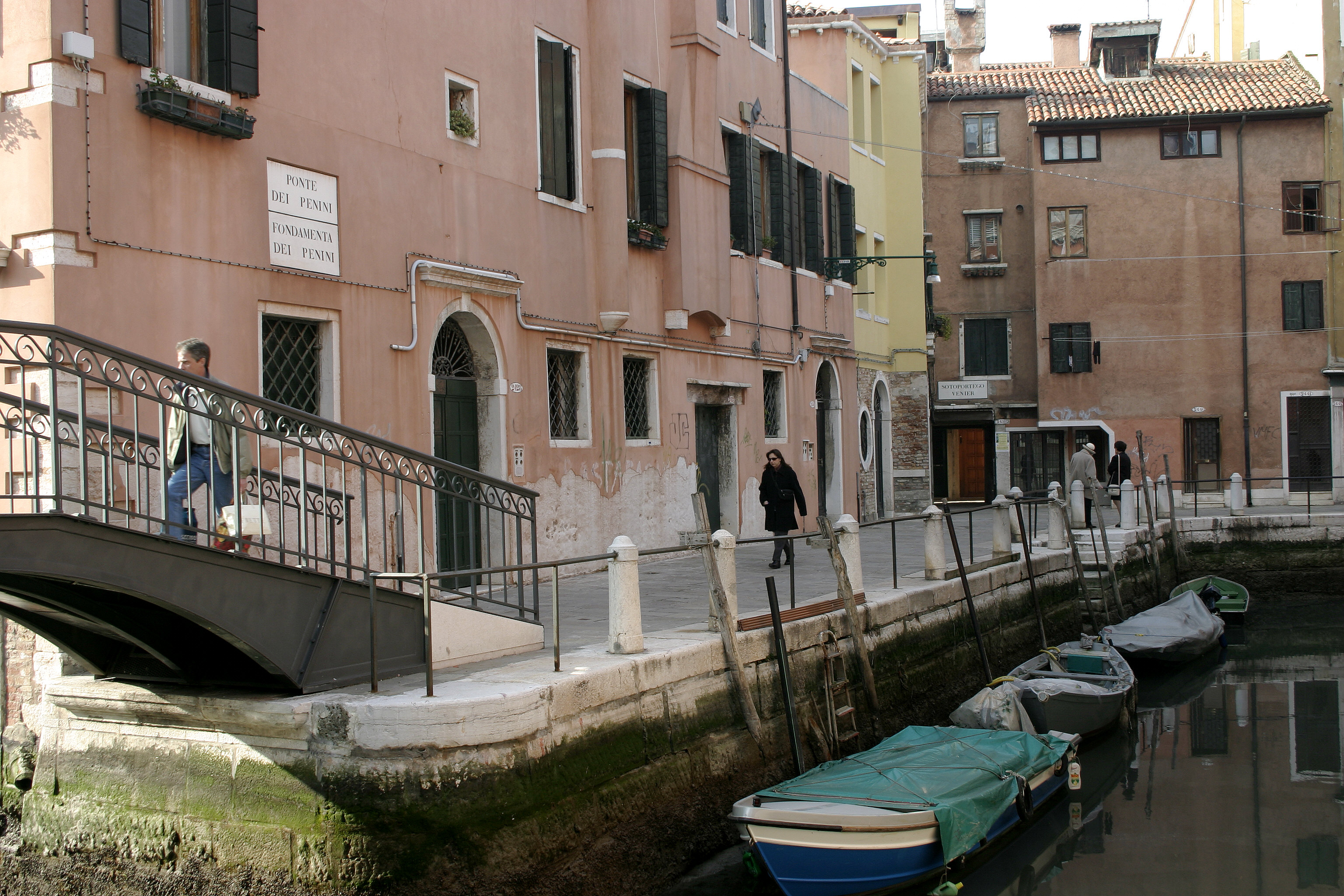 Venice – Fondamenta dei Penini